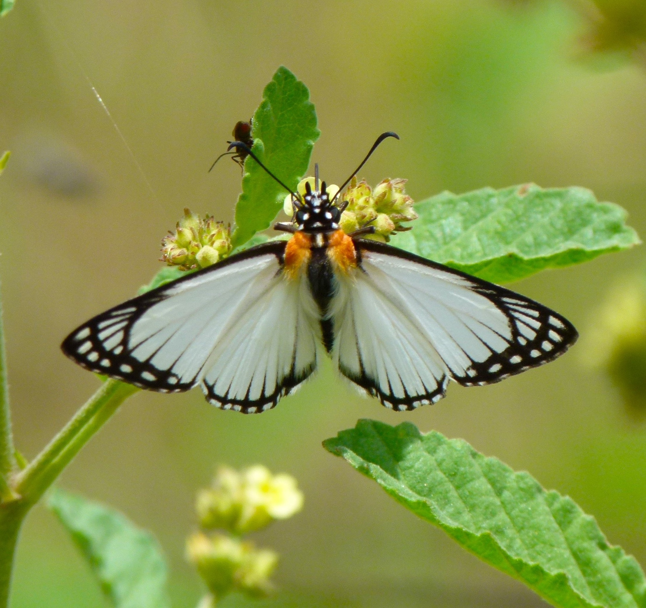 H6 East of Satara, Kruger NP, SOUTH AFRICA